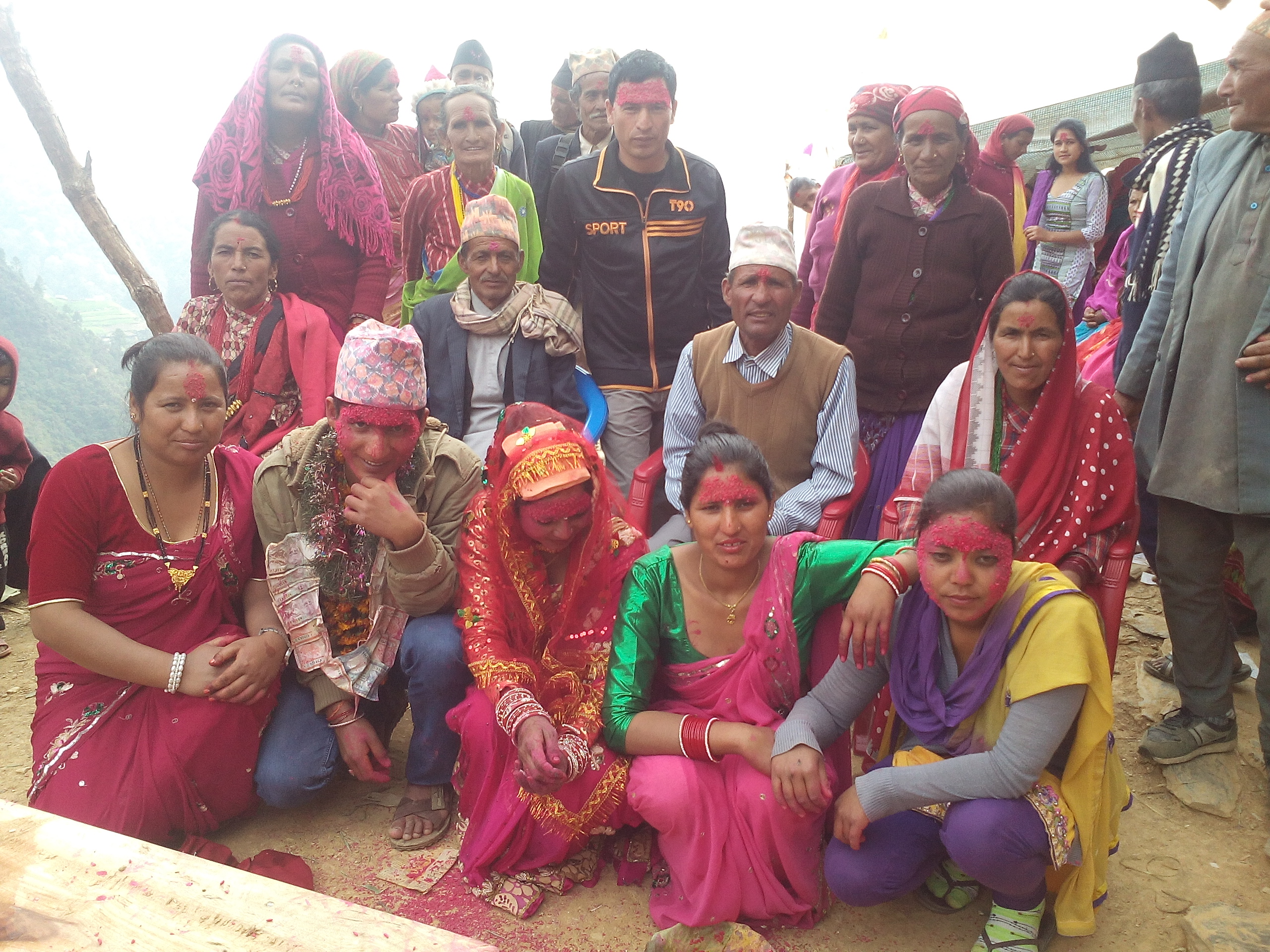 This is about the marriage in Nepali custom.